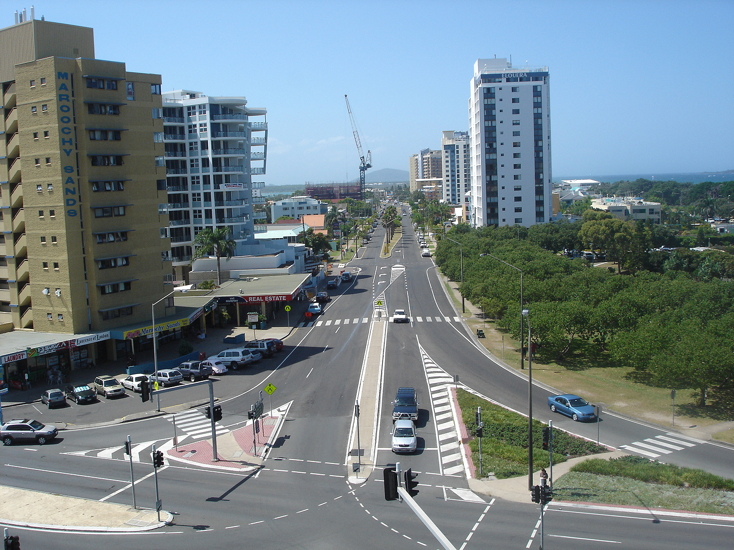 View from 603